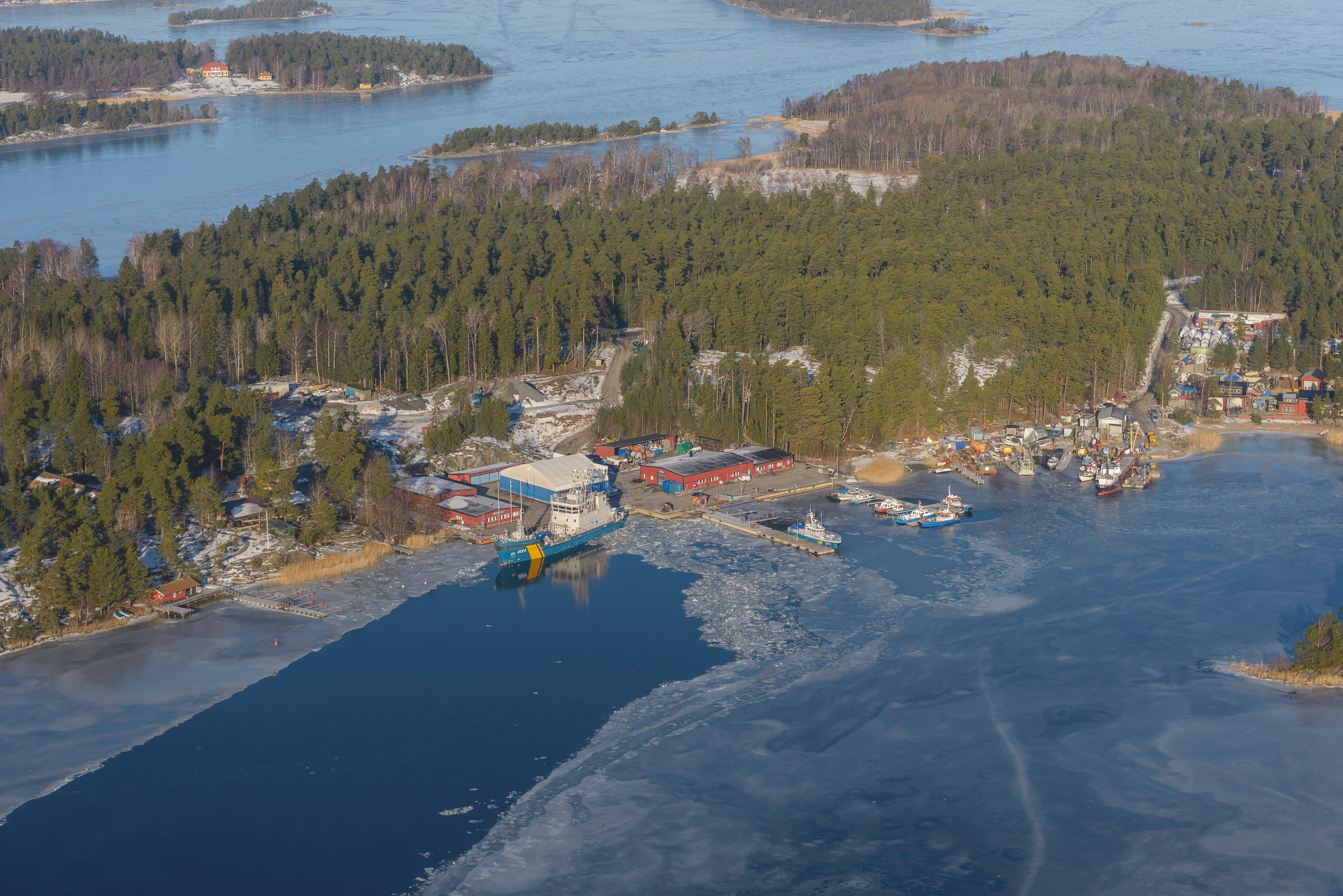 Djurö